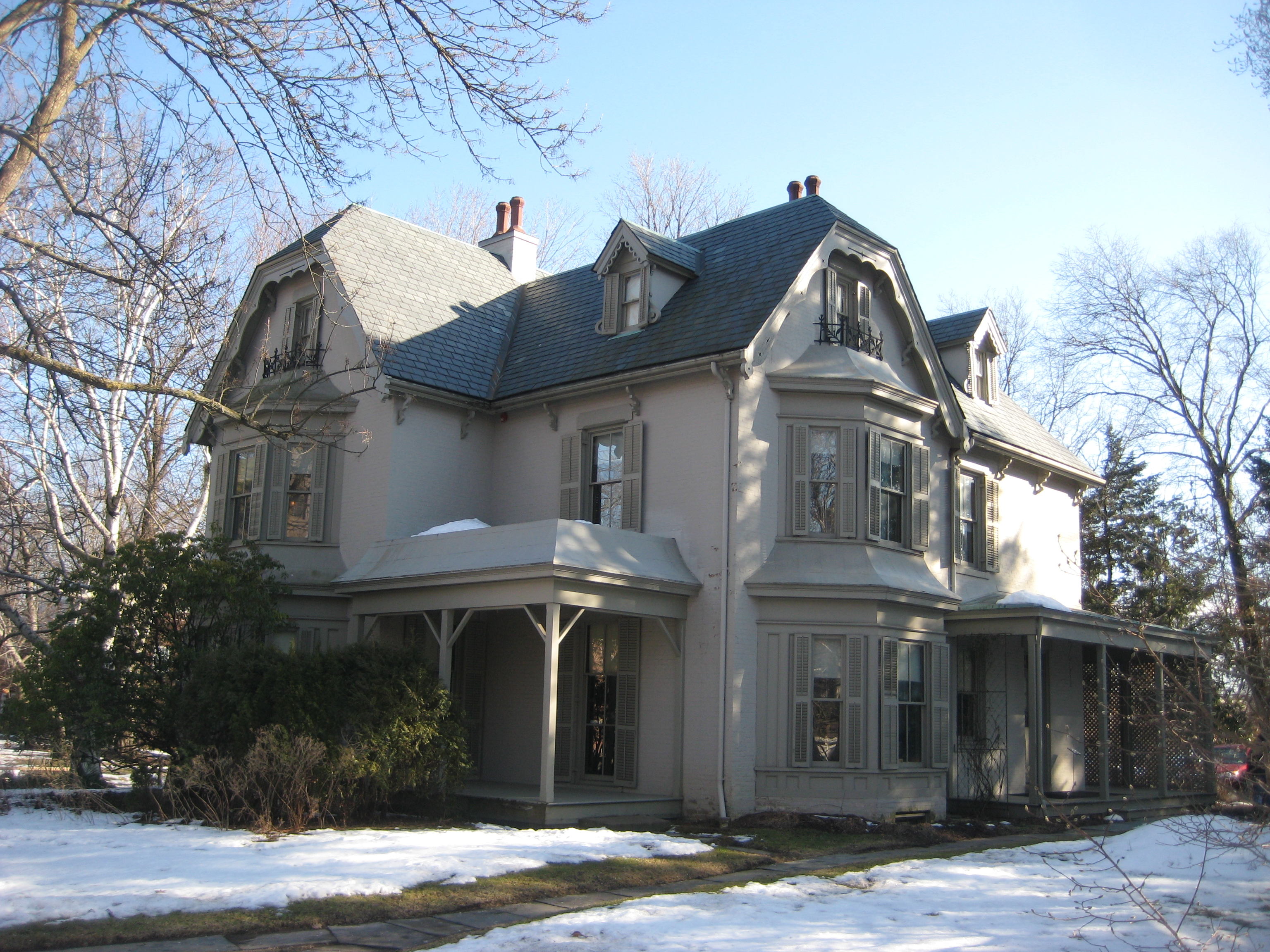 Former home of Harriet Beecher Stowe, author of Uncle Tom's Cabin and many columns and books. Hartford, Connecticut.